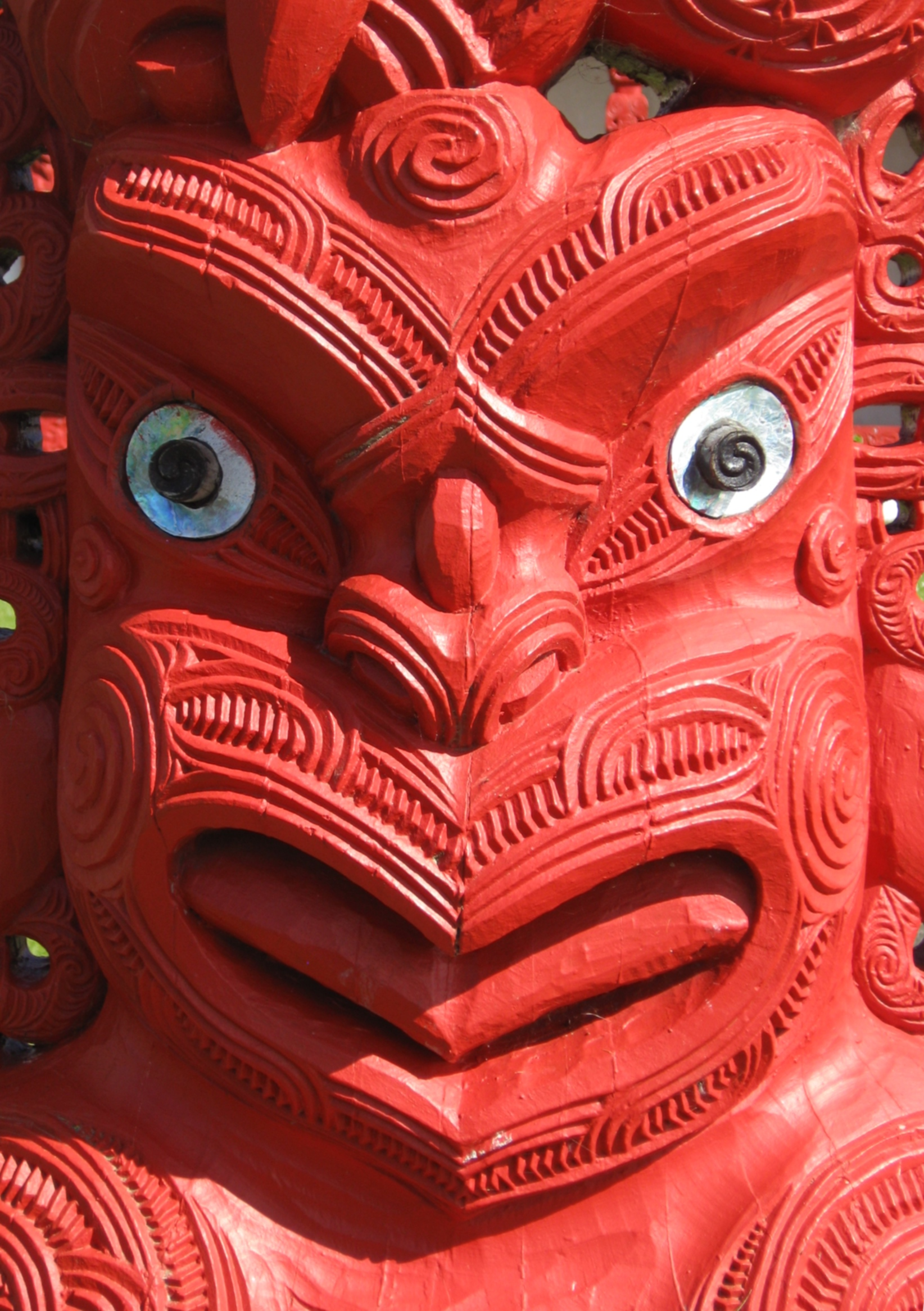 Close up of a human head in the carving of on the left te waharoa at Waiwhetū Marae in Waiwhetū, Lower Hutt, New Zealand.